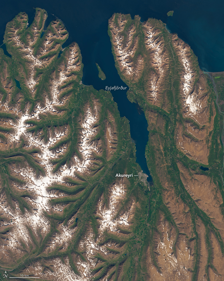 Most of the 109 fjords of Iceland are clustered in a small area in the east or around the large peninsula in the northwestern part of the island. There are just a handful of fjords along the northern coast. Among them is Eyjafjörður, Iceland’s longest fjord. Eyjafjörður spans more than 60 kilometers (40 miles) from its mouth to Akureyri, a city known as Iceland’s “northern capital.” The Operational Land Imager (OLI) on Landsat 8 acquired this image of the fjord on July 26, 2017. Eyjafjörður has become a prime destination for whales, scientists, and tourists. Humpback, bottlenose, blue, and minke whales frequent the sheltered, nutrient-rich waters to feed on plankton. Scientists are drawn to study the unusual hydrothermal vents found in its shallow waters. And with an ice-free port and a surprisingly mild climate, Akureyri is typically visited by more than 100 cruise ships per year. The fjord was created by many thousands of years of glacial activity. When this part of Iceland was cooler and icier, glaciers carved the long, narrow valley by grinding against the land surface as they slid toward the sea. Over time, rising sea levels filled the valley to create the fjord. South of the fjord, pastures and farms are concentrated in the valley. It is one of the few areas in the rugged, rocky terrain of Northern Iceland with a significant amount of farmland. NASA Earth Observatory image by Lauren Dauphin, using Landsat data from the U.S. Geological Survey. Story by Adam Voiland